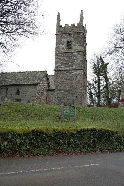 St Keyne Church Tower Right on the bend is the church at St Keyne.